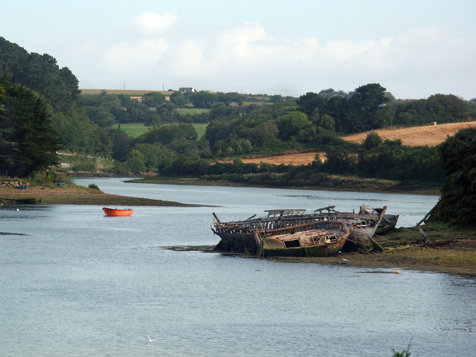 A view of the shipwrecks along the ria du Goyen in Plouhinec (face to Audierne) in Finistère (Britanny, France).